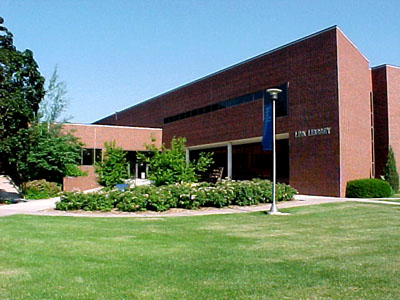 This is a photo of Concordia University, Nebraska's Link Library.